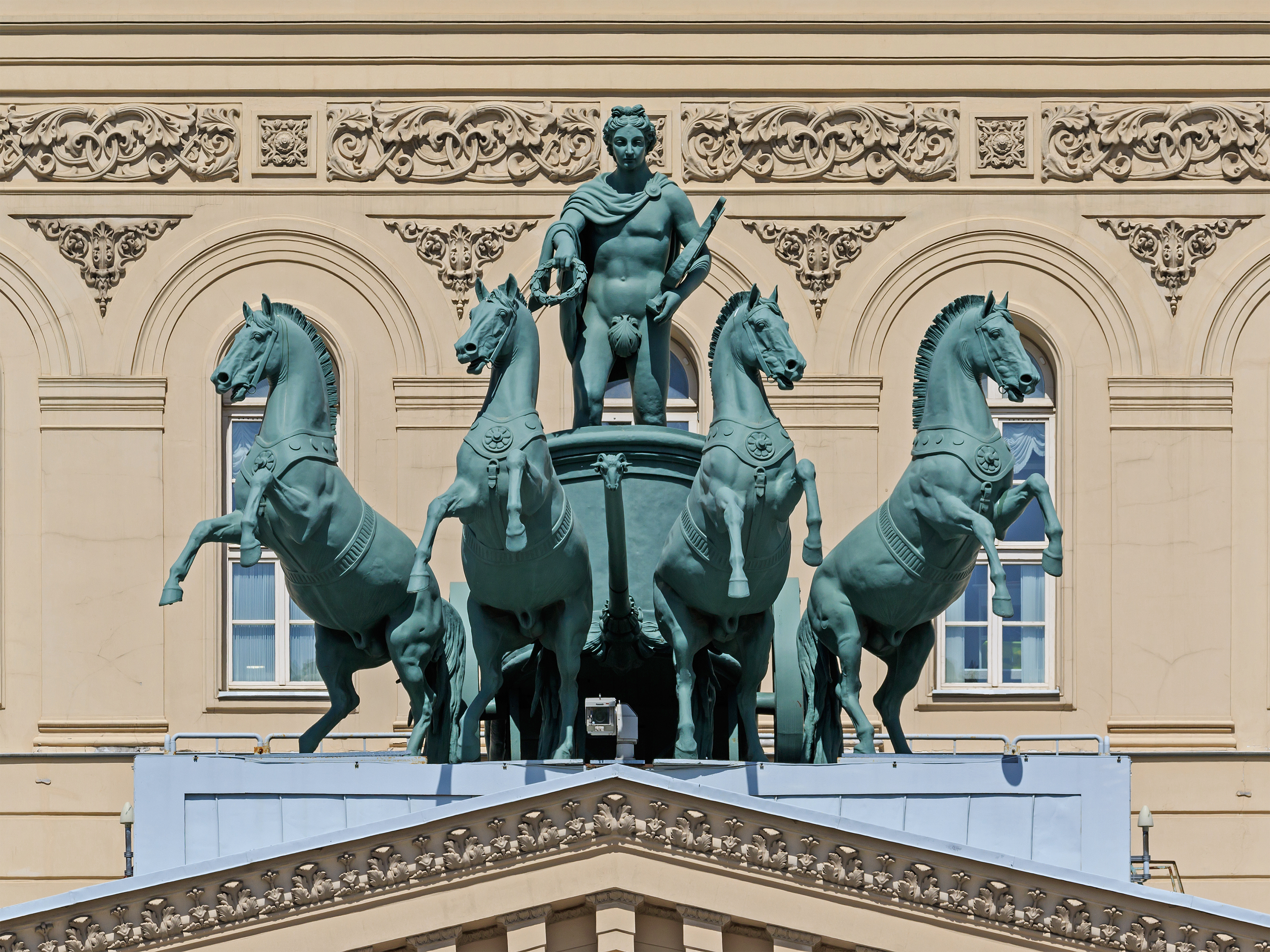 Quadriga of Bolshoi Theatre building in Moscow (Russia).